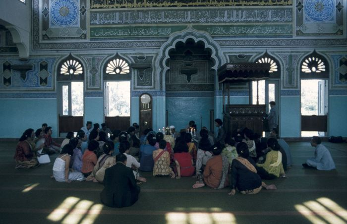 Sundanese wedding in a mosque